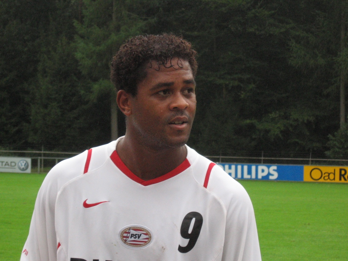 Kluivert at the trainingspitch at PSV at 7 September 2006. Photo made by me (GHoeberX); I'm the owner/webmaster/administrator of [